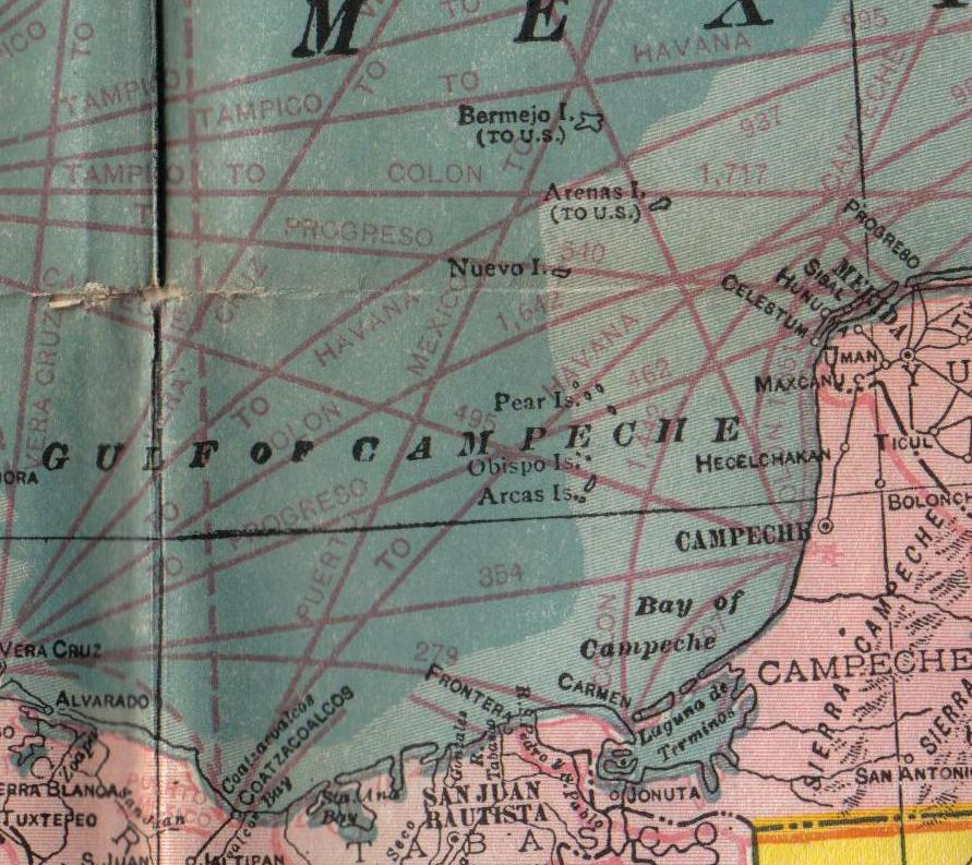 Detail of 1914 map showing Gulf of Campeche and islands